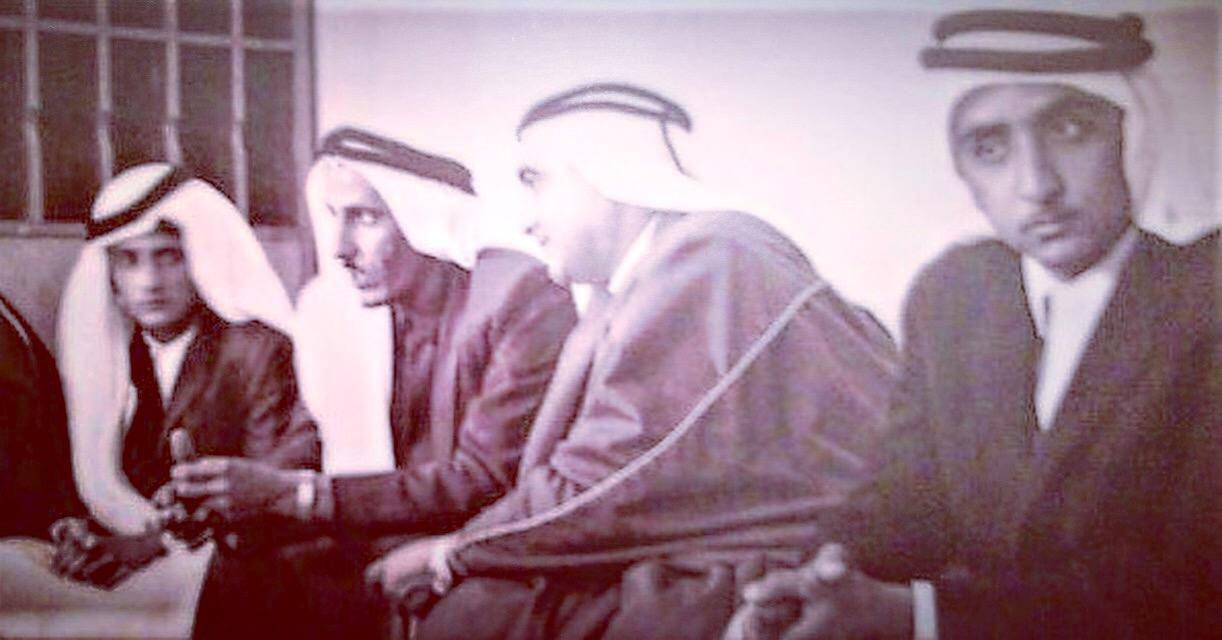 Mohammad Al Gaz, center, flanked by Ahmad Al Ghurair and Sheikh Mohammad bin Rashid on his right and Sheikh Maktoum bin Rashid and Mahdi Al Tajir on his left.